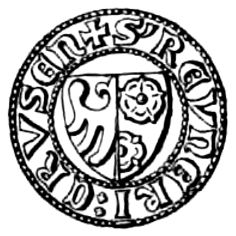 from Table 62 of collected seals from the medieval Duchy of Mecklenburg.